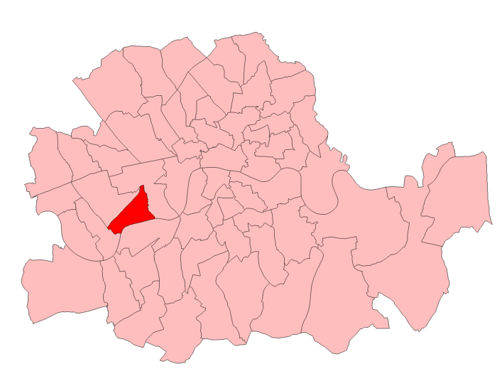 A map of Chelsea constituency within the London County Council area, as it existed from 1918 to 1949.